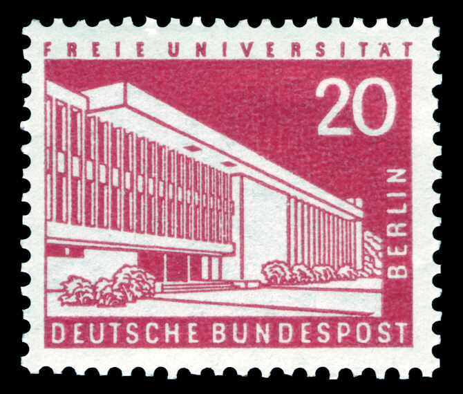 Definitive stamp series Pictures of Berlin (II)